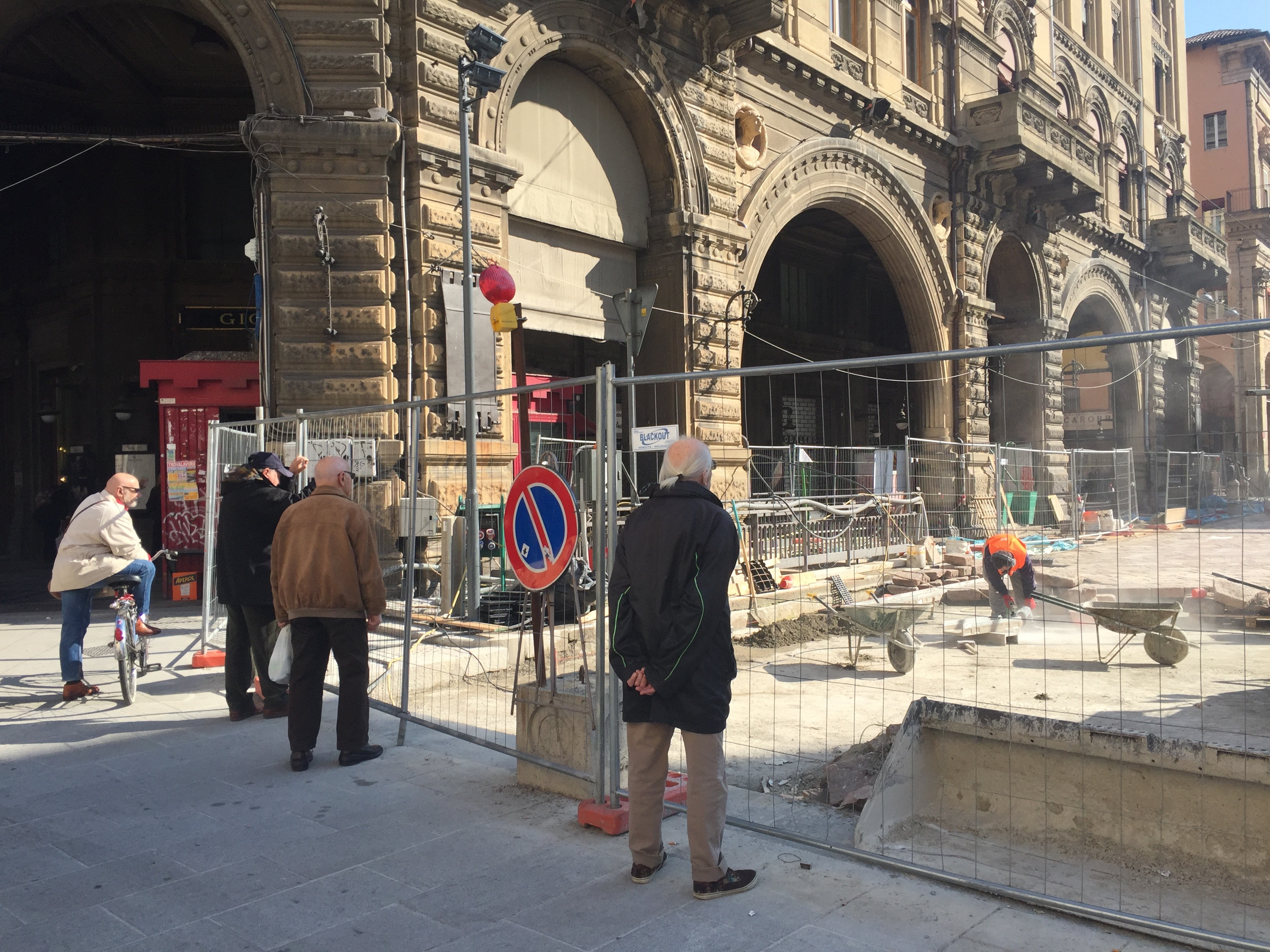 Umarells in Piazza Maggiore, Bologna. Originated from the Bolognese dialect word umarèl ("little man"), and increasingly used in other parts of Italy since 2010s, the term referring specifically to men of retirement age who pass the time watching construction sites, especially roadworks – stereotypically with hands clasped behind their back and offering unwanted advice.